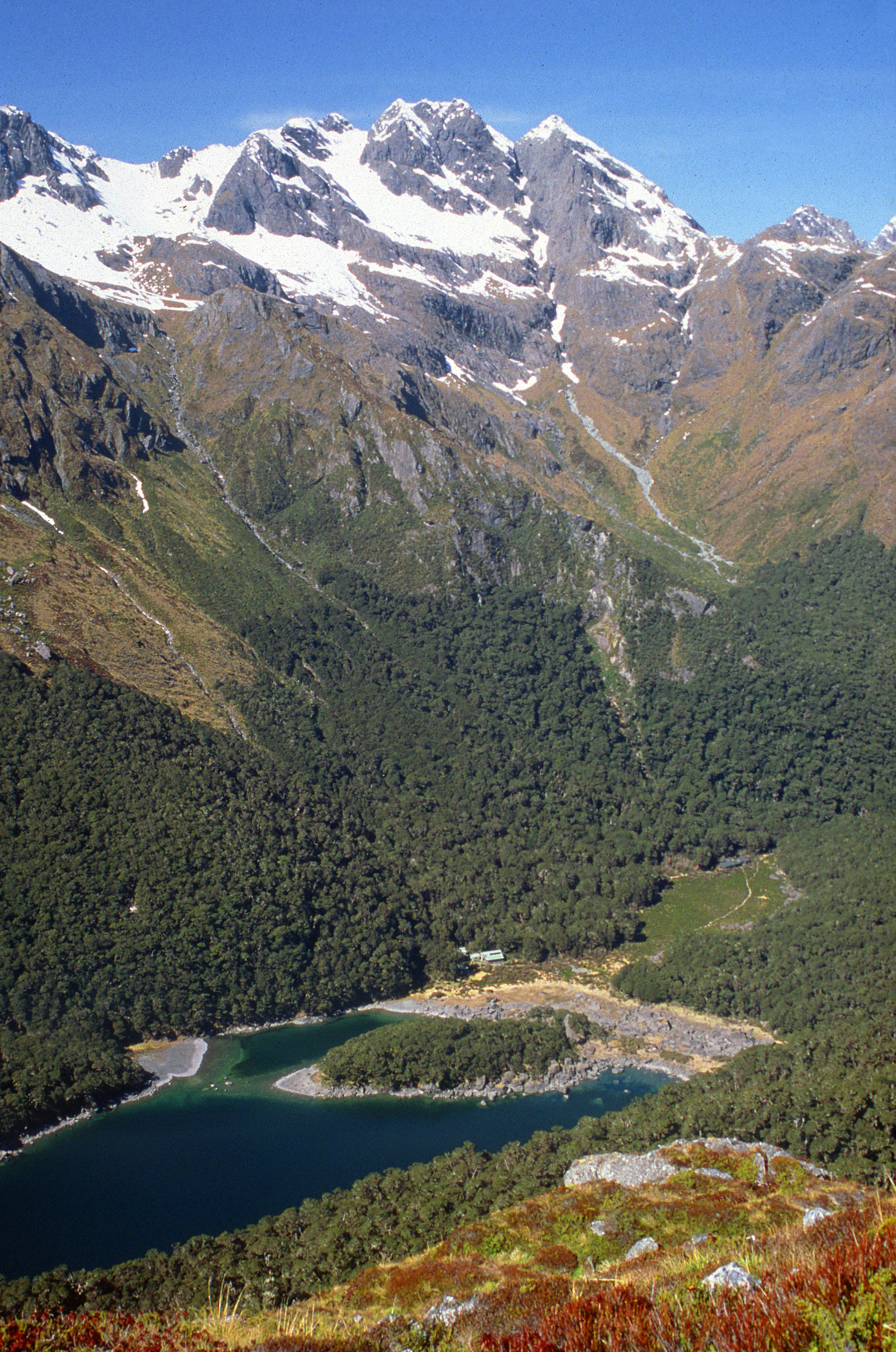 Mackenzie Hut at Mackenzie Lake, Routeburn Track, New Zealand.